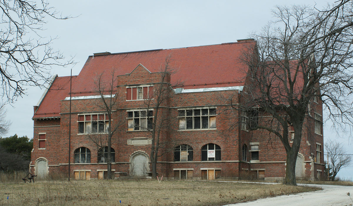 Milwaukee County School of Agriculture and Domestic Economy. Currently abandoned.